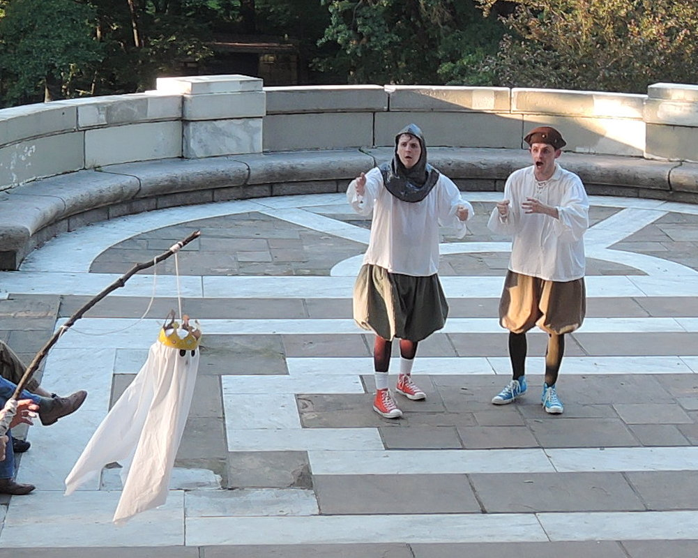 Ghost makes first scary appearance in The Complete Works of William Shakespeare (Abridged).